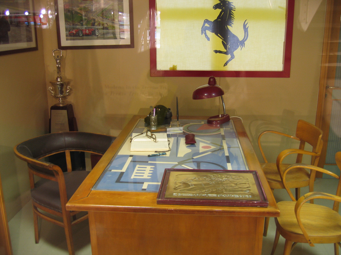 Enzos office